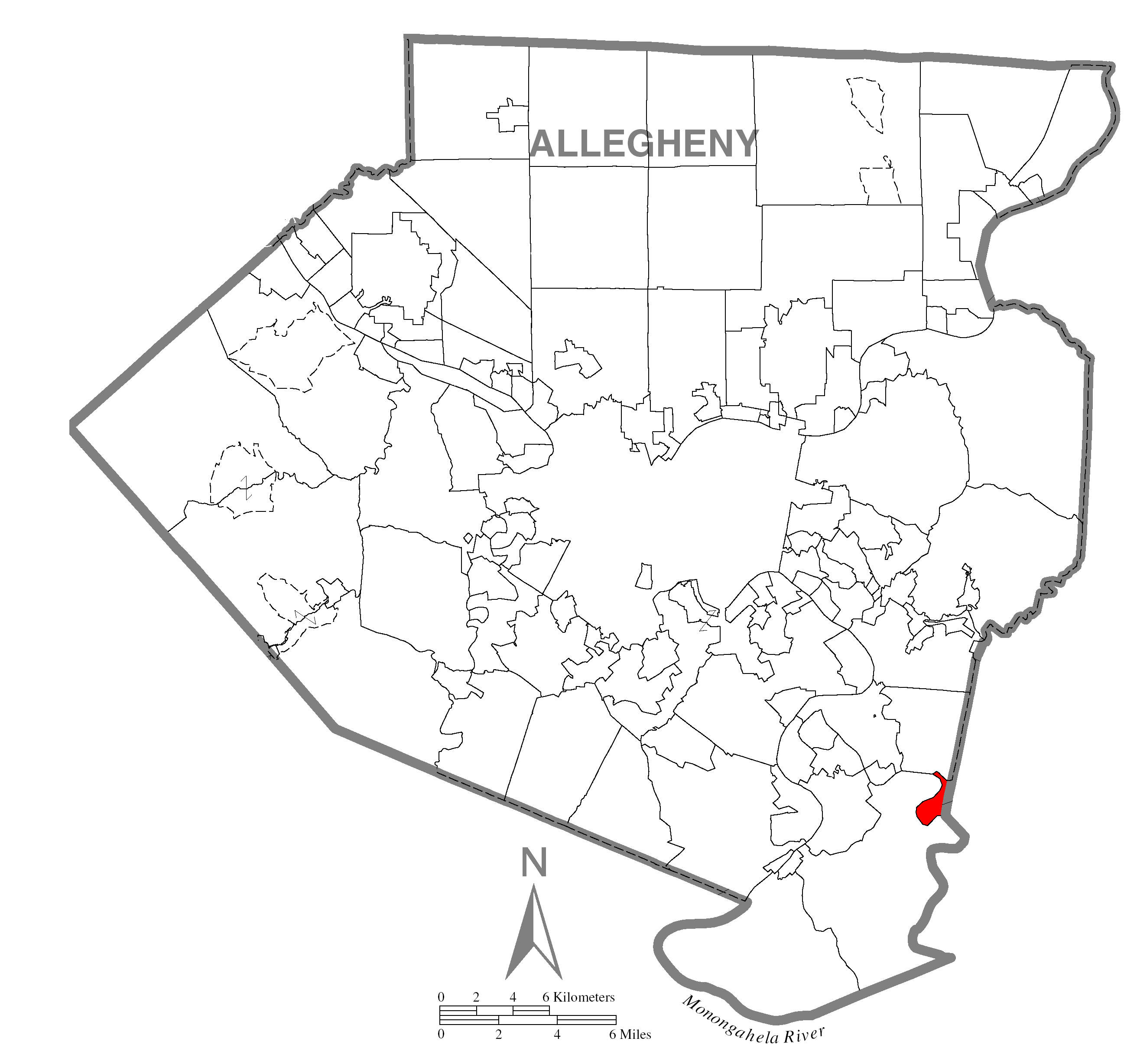 A map of Allegheny County showing South Versailles Township, Pennsylvania (alternate) highlighted on the map.